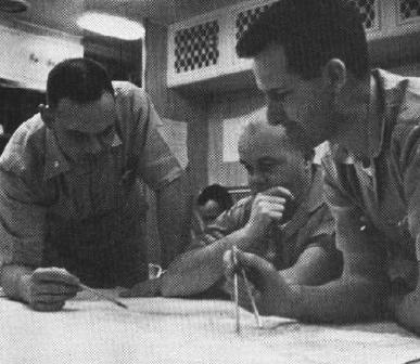 Original caption: UNDERSEA PLOT - Triton's skipper Capt. E. I. Beach, plots course with sub's executive and operation officer. Note - Lt. Commander Will M. Adams is the executive officer, and Lt. Commander Robert W. Bulmer is the operations officer.